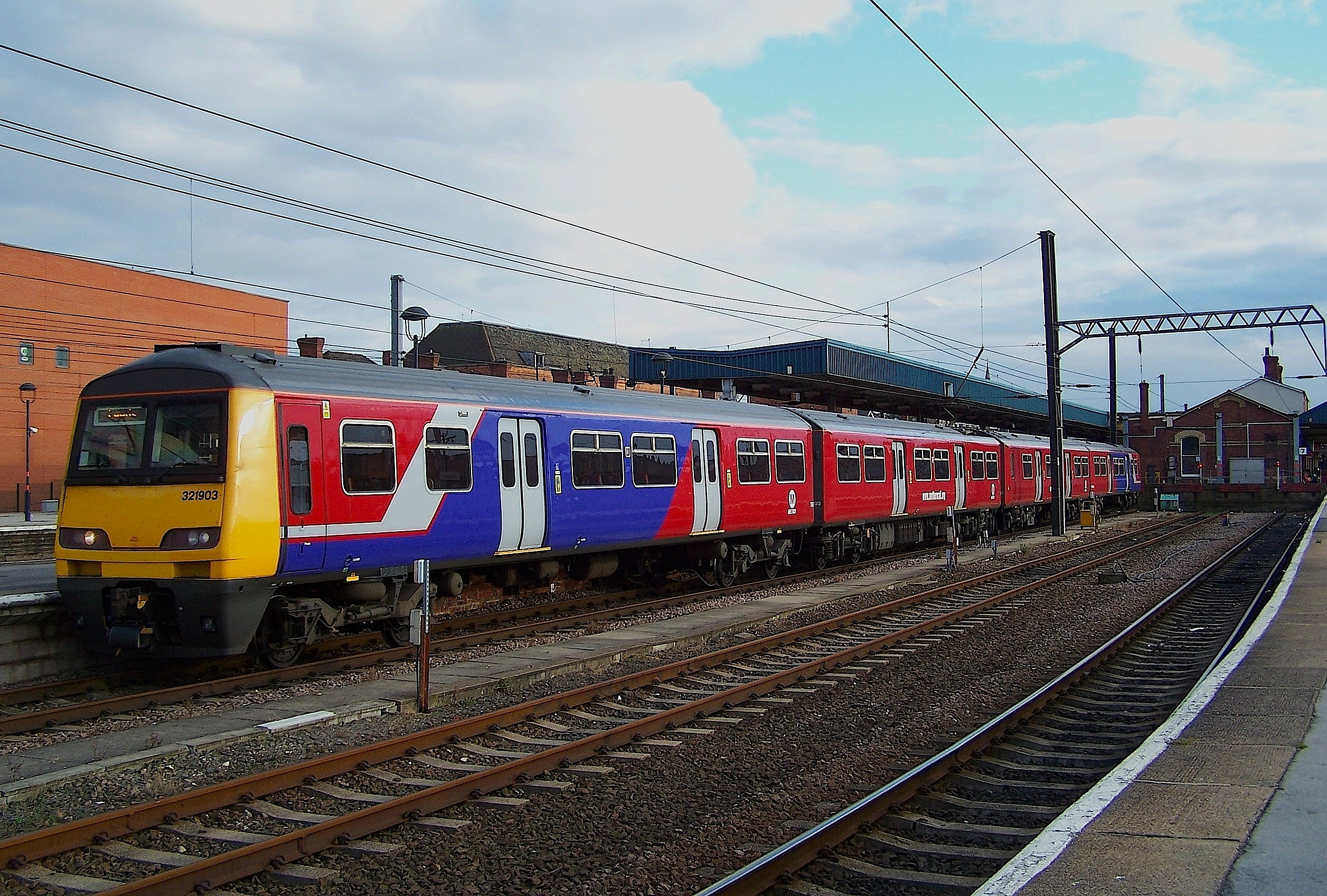 Recently refurbished Northern Rail/WYPTE Metro Class 321/9 No. 321903 at Doncaster